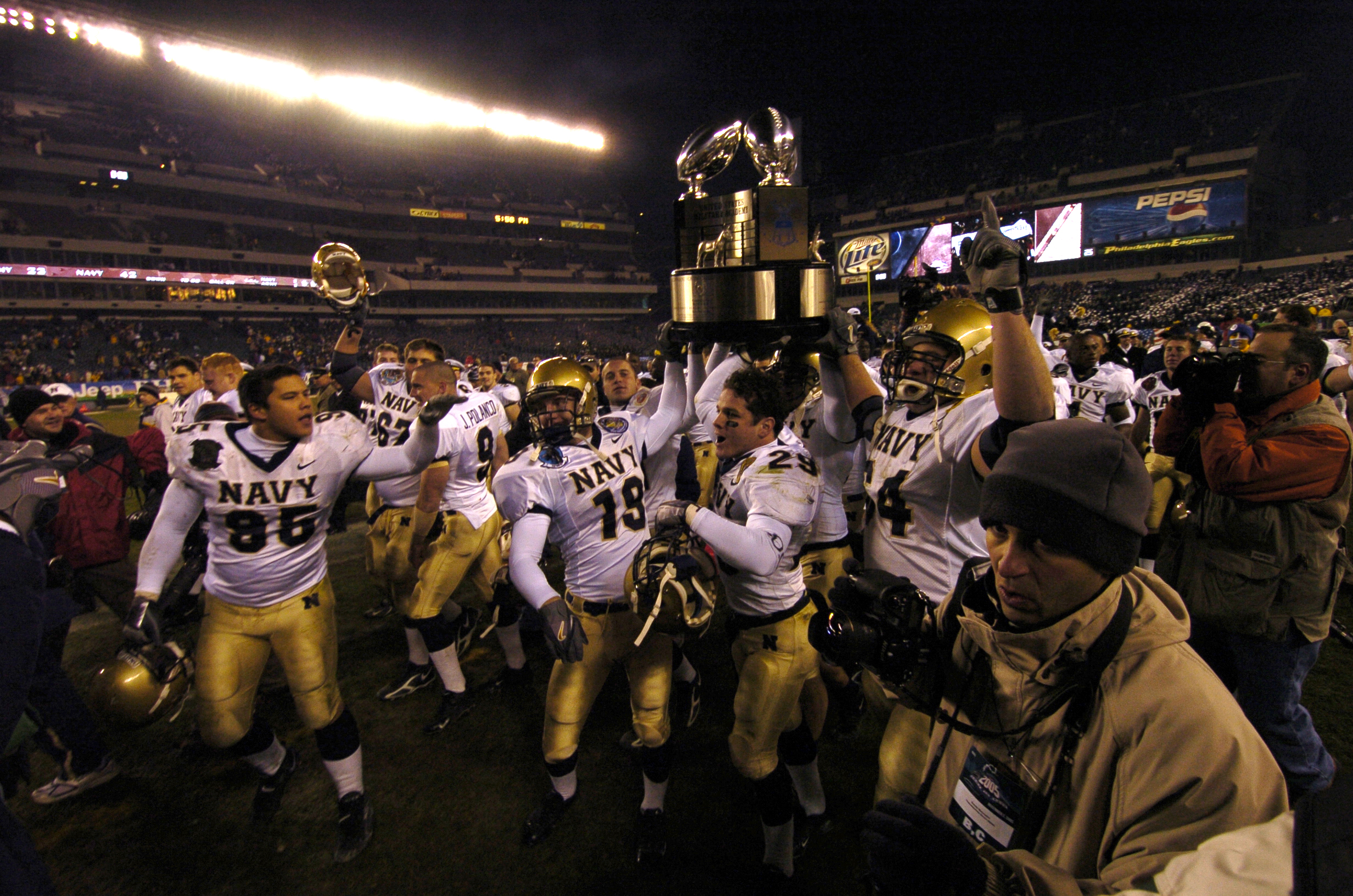 U.S. Naval Academy football players carry the Commander-in-Chief's Trophy off the field following a 42-23 victory over the Black Knights of Army. This was the 106th Army vs. Navy Football game, held for the third consecutive year at Lincoln Financial Field. The Mids have now won the past four Army-Navy battles, and now lead the series at 50-49-7.